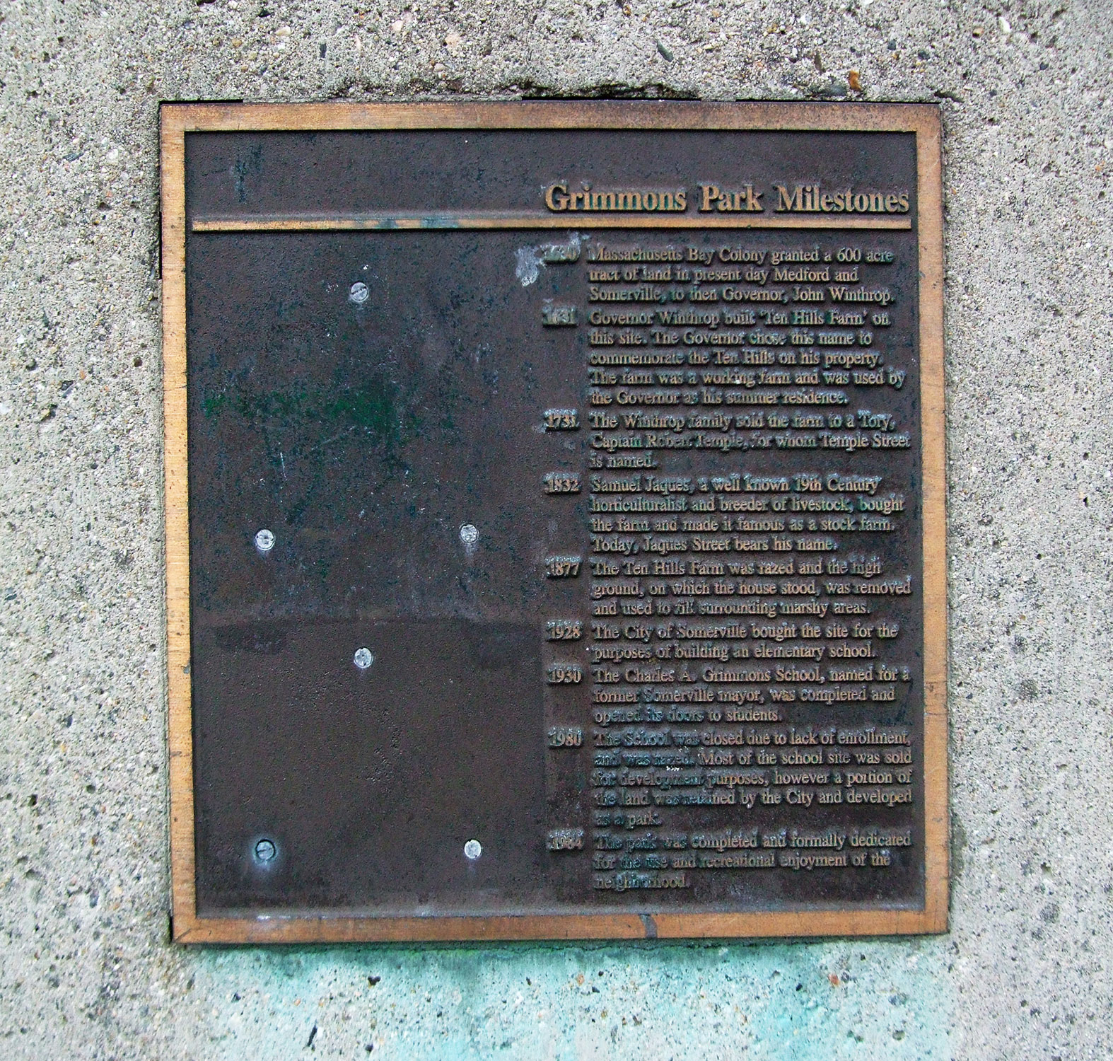 Commemorative Plaque located at Grimmons Park Playground in Ten Hills, Somerville, Massachusetts